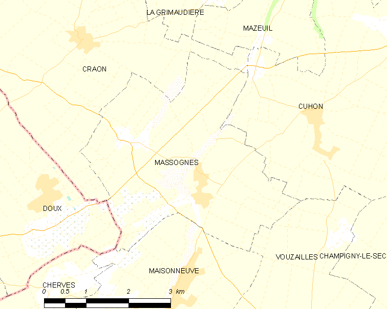 Map of French municipality Massognes